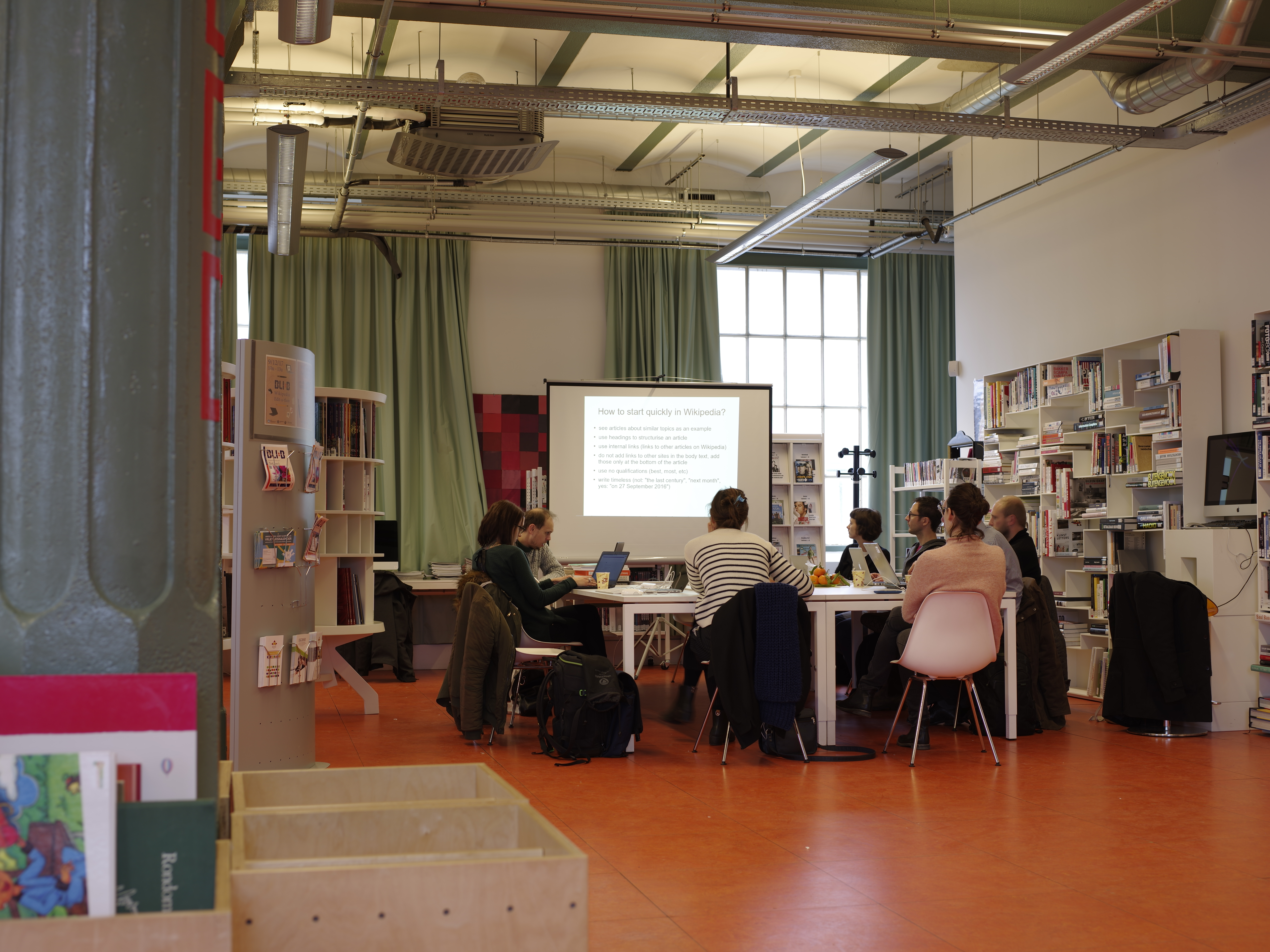 Wikipedia edit-a-thon on December 9 2017 at BLI:B, public library Forest, at avenue Van Volxem 364 in 1190 Brussels (Forest).